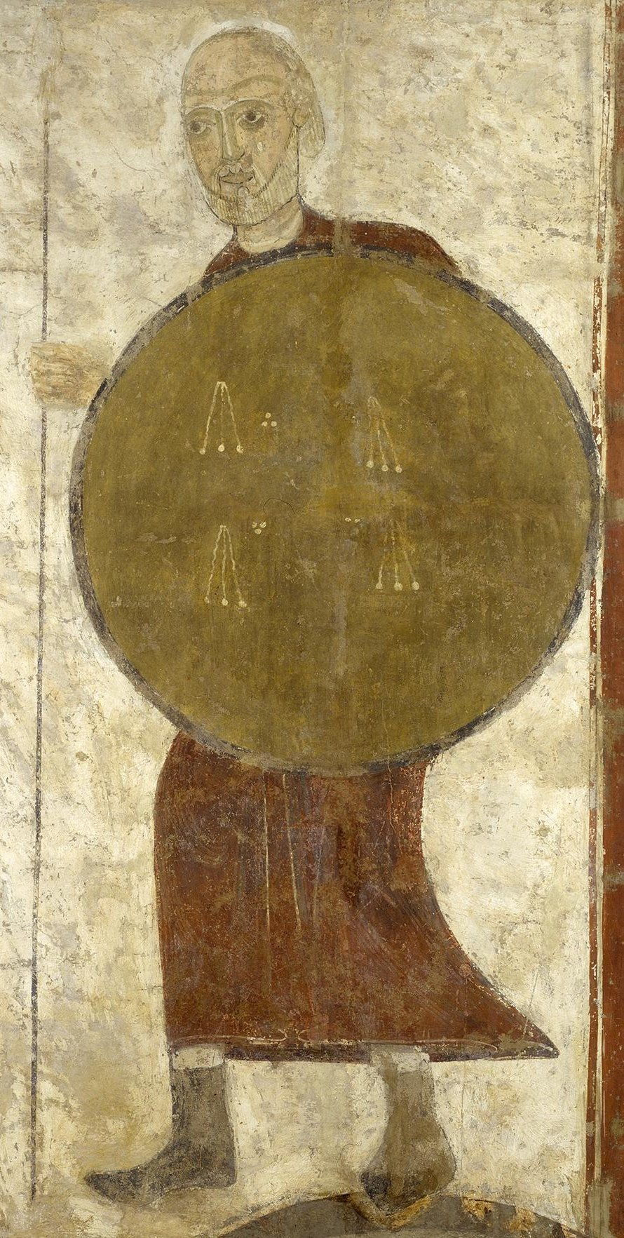 Frescos from the Church of San Baudelio de Berlanga, Soria, Spain 12th century